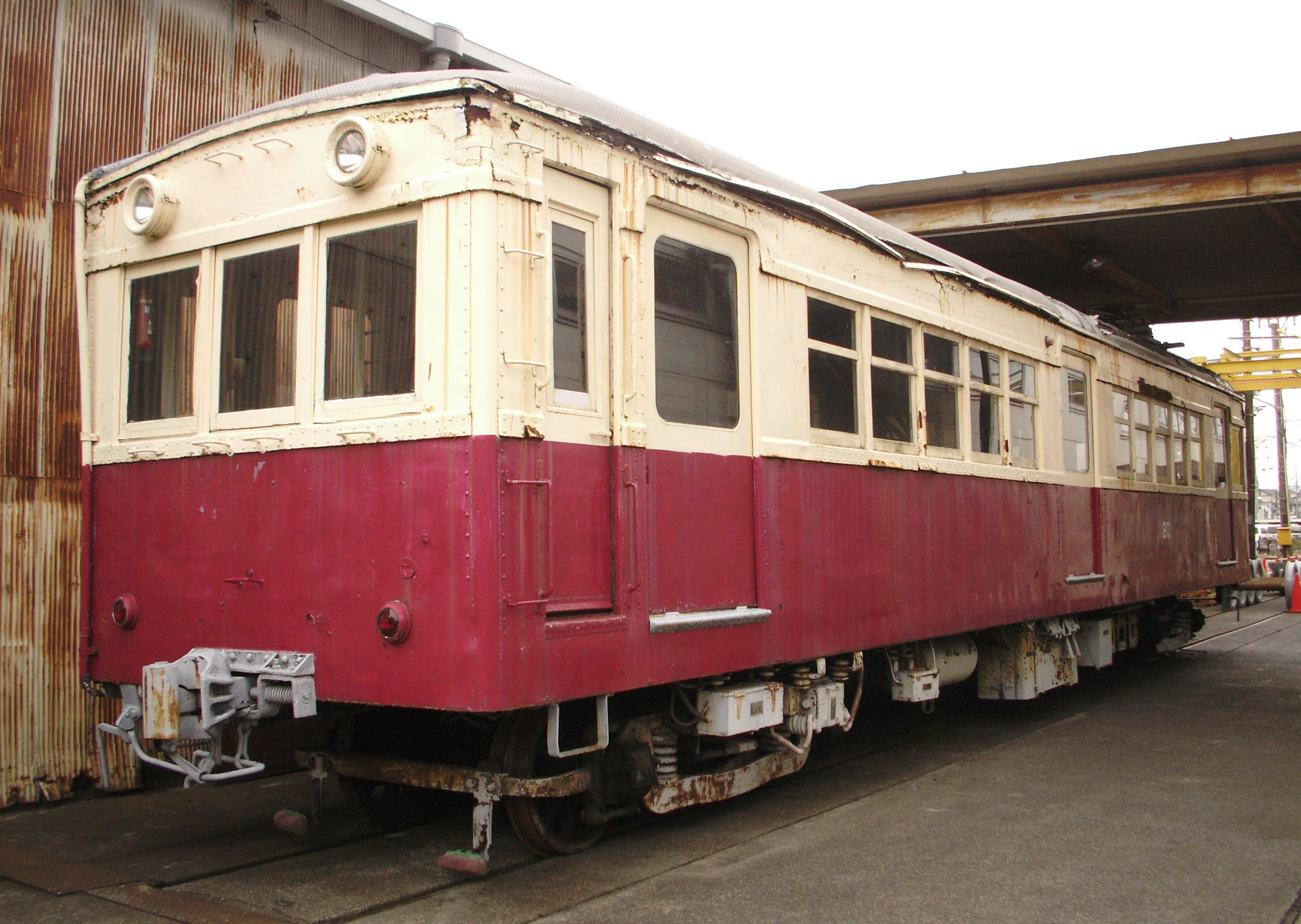 Shizuoka Railway Kumoha 20 EMU at Naganuma Workshop